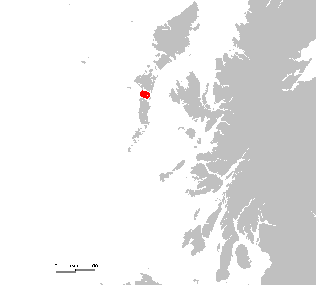 UK Benbecula.PNG (Scotland, Hebrides)